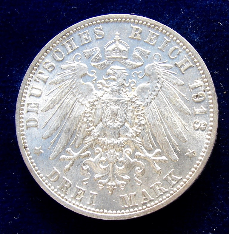 Saxony, German State, 3 Mark 1913 Silver Coin Monument to the Battle of the Nations 1813 - 1913, Battle of Leipzig Centennial. 16.69 g Ag 0.900 The monument to the Battle of the Nations, curved above: "18. OKTOBER *1813 = 1913*". Mint mark E below for Saxony./ Crowned Imperial Eagle, around: "*DEUTSCHES REICH date * DREI MARK *". Edge lettering: "GOTT MIT UNS". KM 1275. Medallist: Friedrich Wilhelm Hörnlein, Dresden 1873 - 1945 Dresden Condition: Almost UNCIRCULATED